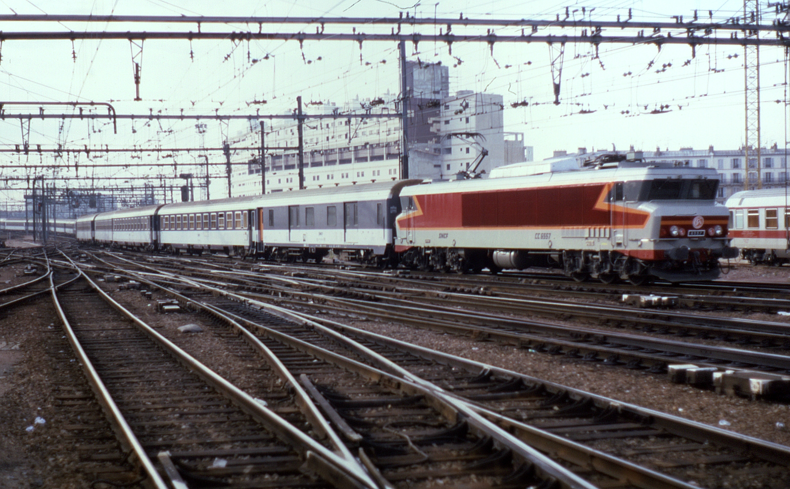 SNCF class CC 6500 no. CC 6557 seen pulling into Paris-Gare de Lyon on 2 August 1985. 78 examples were built and was one of the earliest of the Nez cassés as designed by Paul Arzens . This class were employed on express trains out of Paris Lyon and Austerlitz for many years, in latter days were relegated more to freight work.